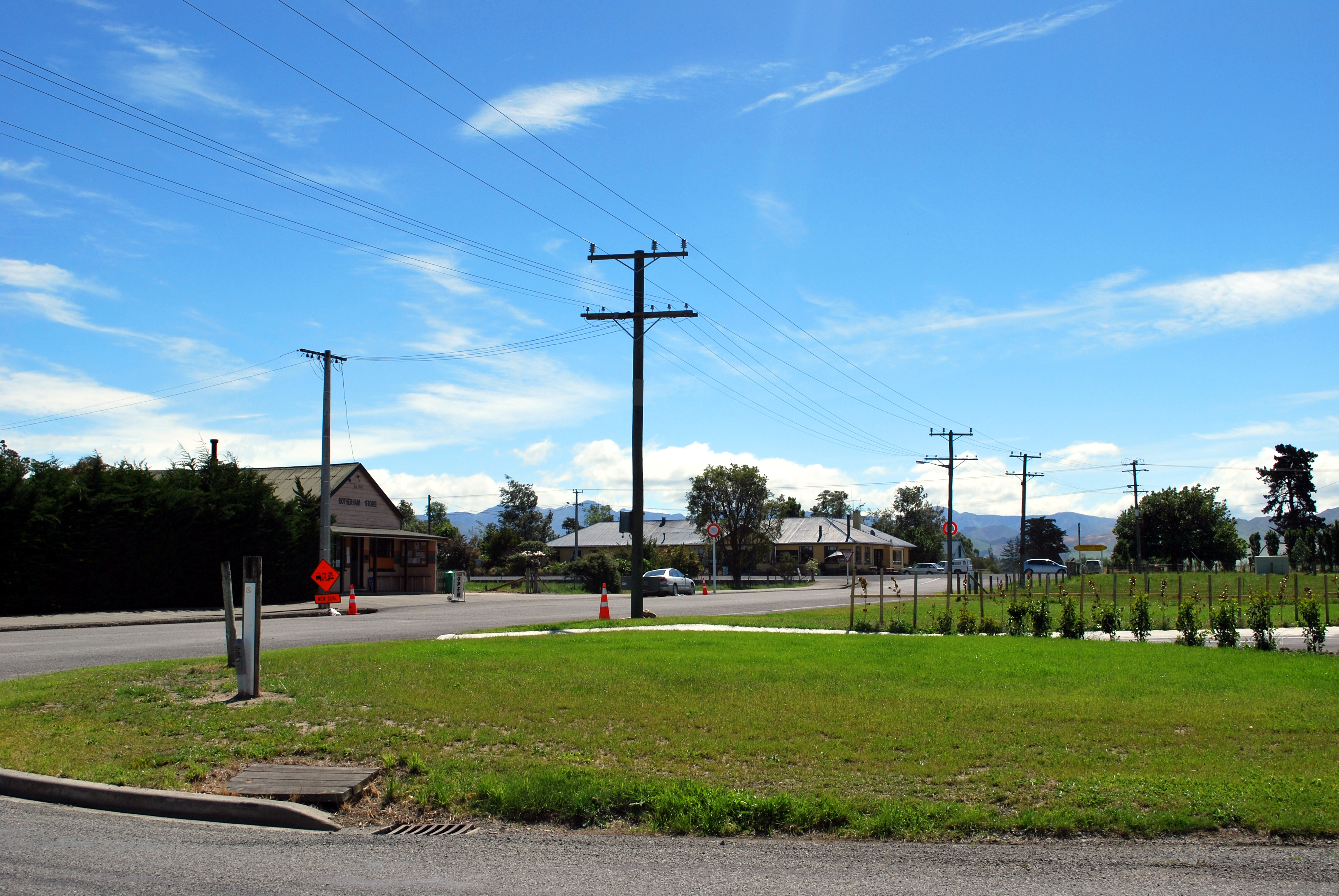 Heaton Street (New Zealand State Highway 70), Rotherham, New Zealand